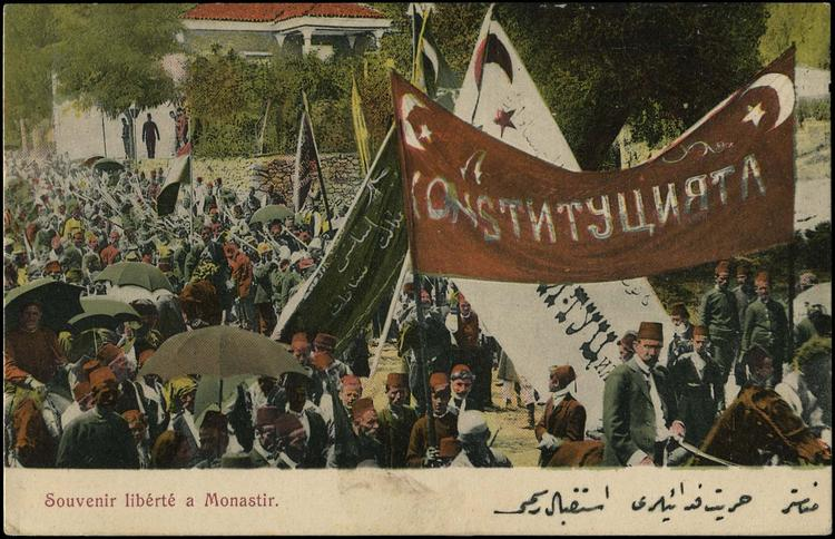 Young Turks revolution in Bitola